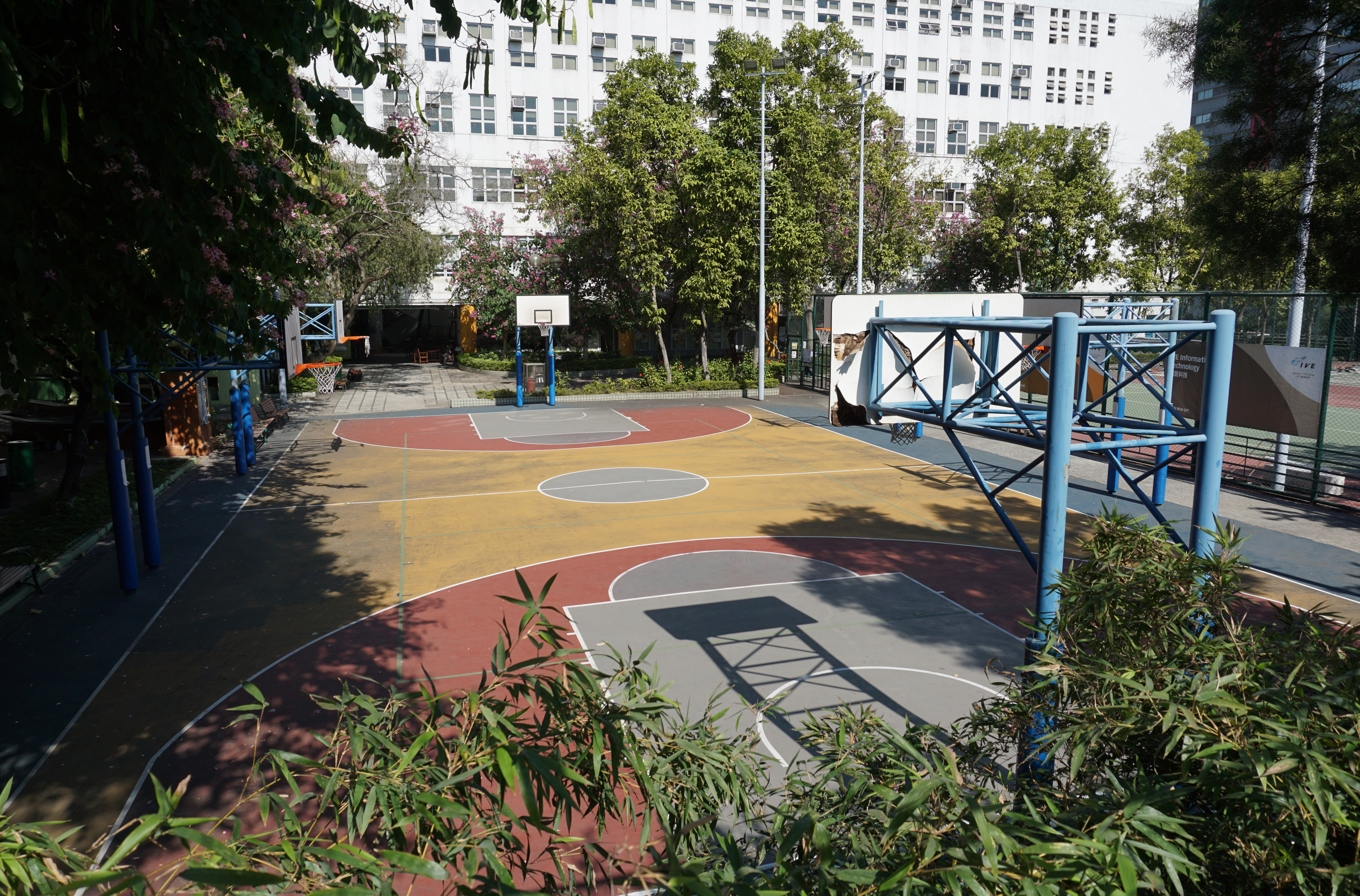 Institute of Vocational Education in Tuen Mun, Hong Kong.